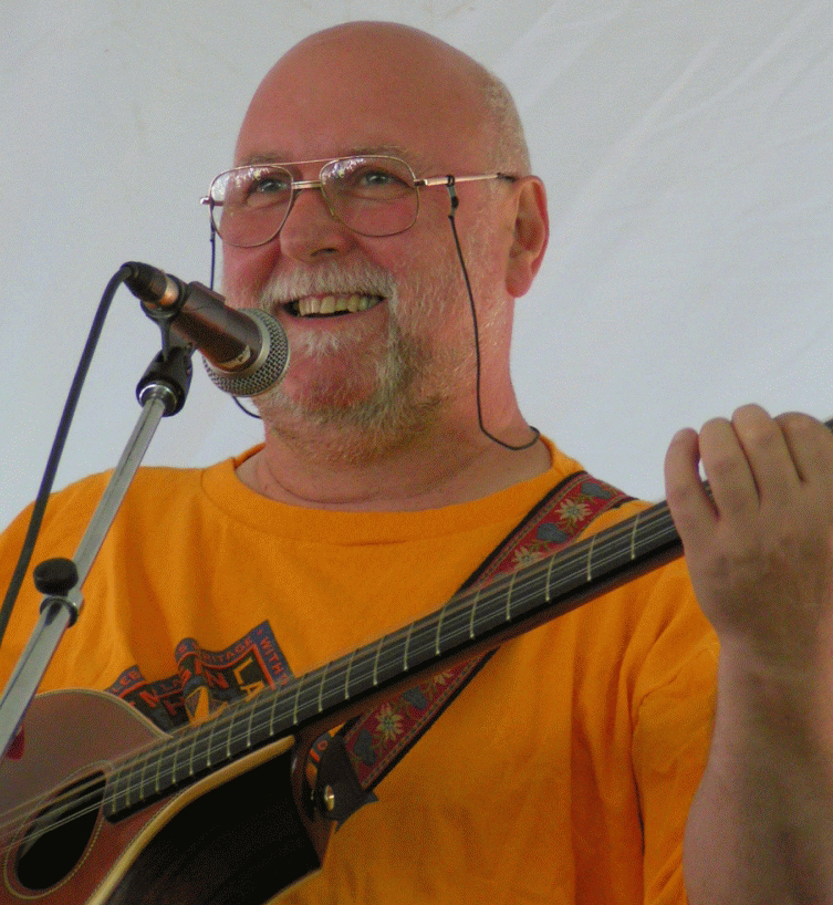 Brian McNeill performing at the Celtic Roots Festival in Goderich, Ontario.